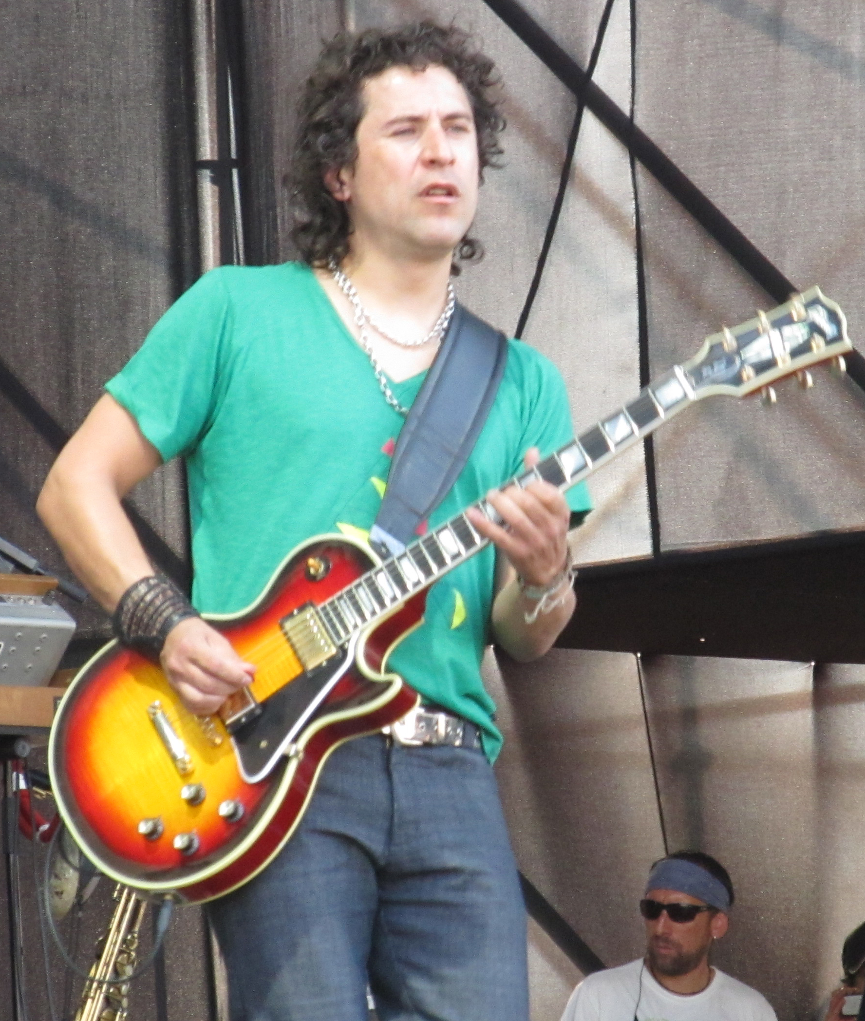 Ankatu Alquinta, chilean guitarist in a Los Jaivas gig, at Lollapalooza Chile 2012.